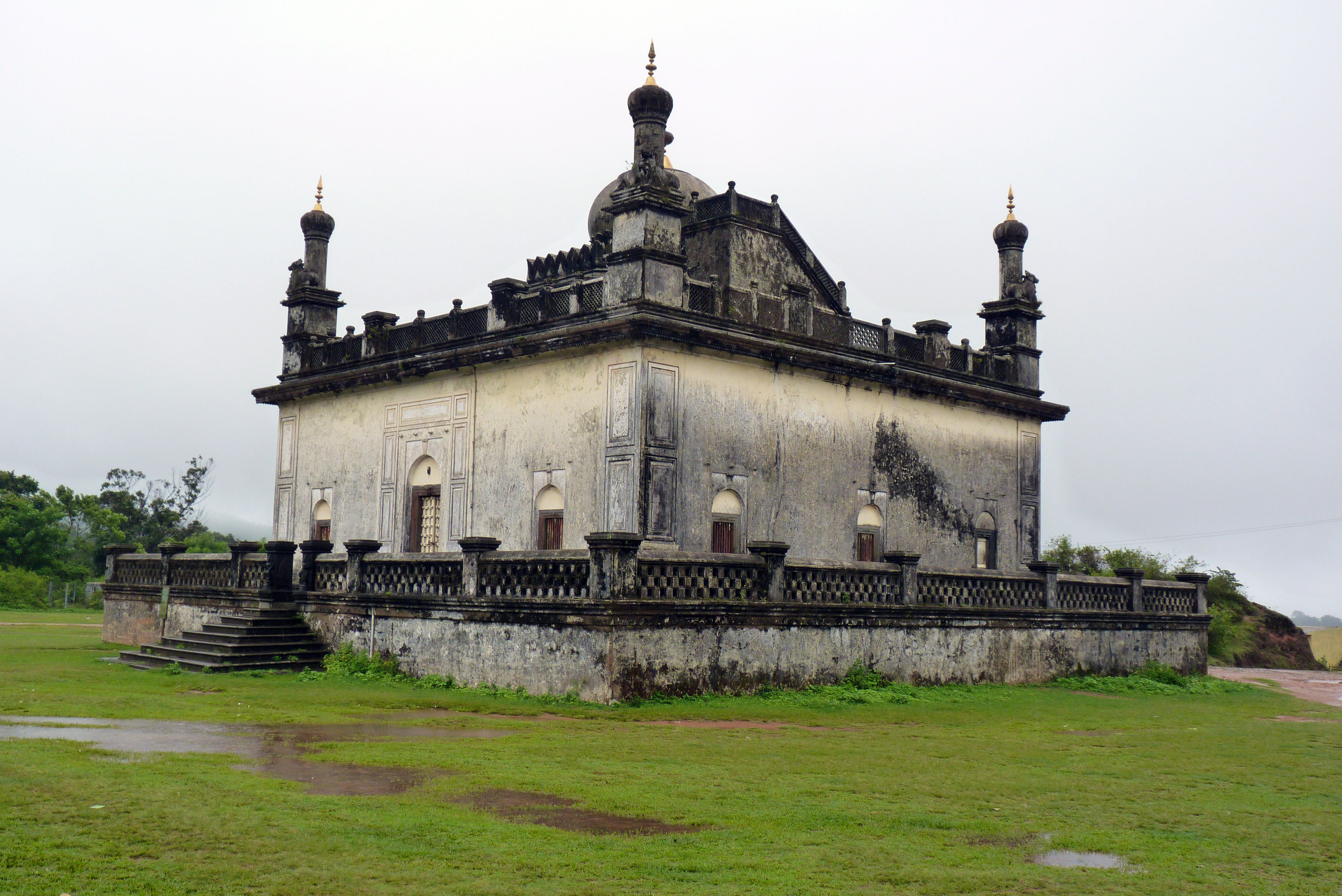 Raja's Tombs